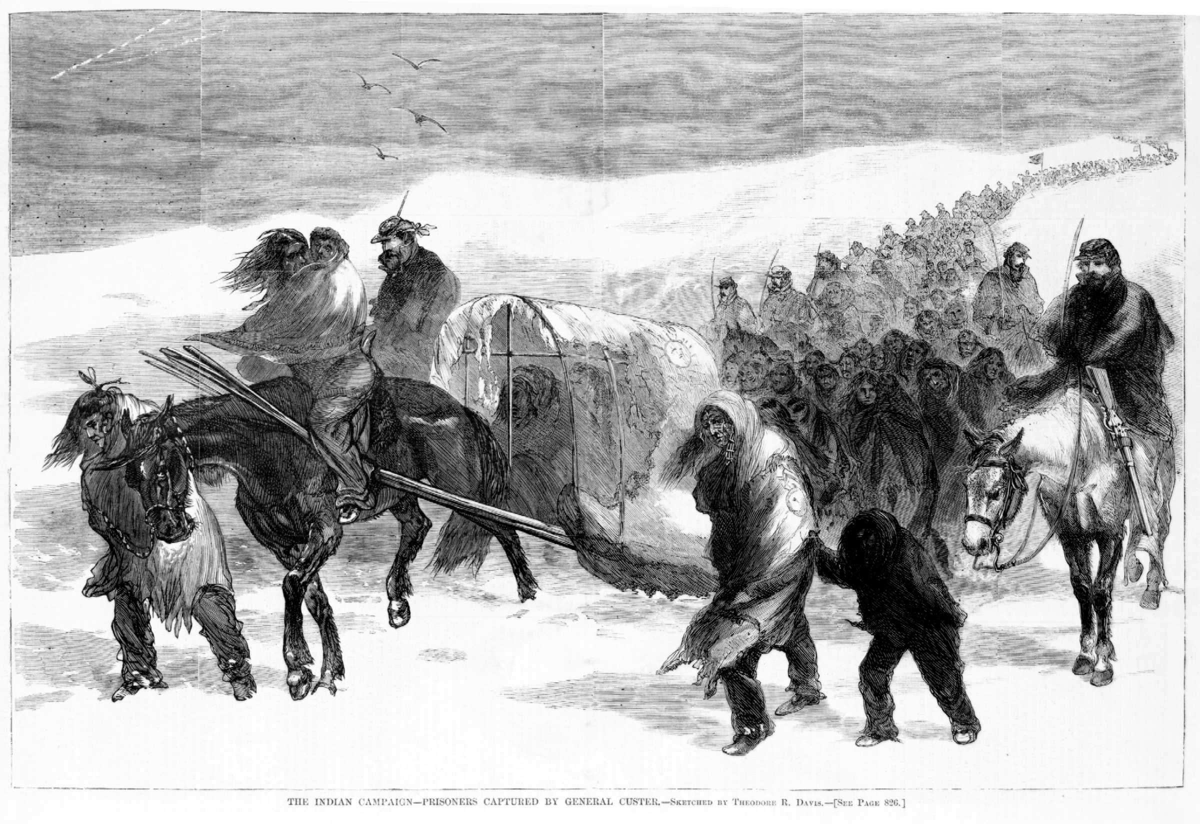 Downloaded from TITLE: The Indian campaign--prisoners captured by General Custer / sketched by Theodore R. Davis. CALL NUMBER: Illus. in AP2.H32 1868 Case Y [P&P] REPRODUCTION NUMBER: LC-USZ62-117248 (b&w film copy neg.) RIGHTS INFORMATION: No known restrictions on publication. SUMMARY: Prisoners, from Black Kettle's camp, captured by General Custer, traveling through snow. MEDIUM: 1 print : wood engraving. CREATED/PUBLISHED: 1868. RELATED NAMES: Davis, Theodore R., artist. NOTES: Illus. in: Harper's weekly, v. 12, 1868 Dec. 19, p. 825. Transferred from [1]